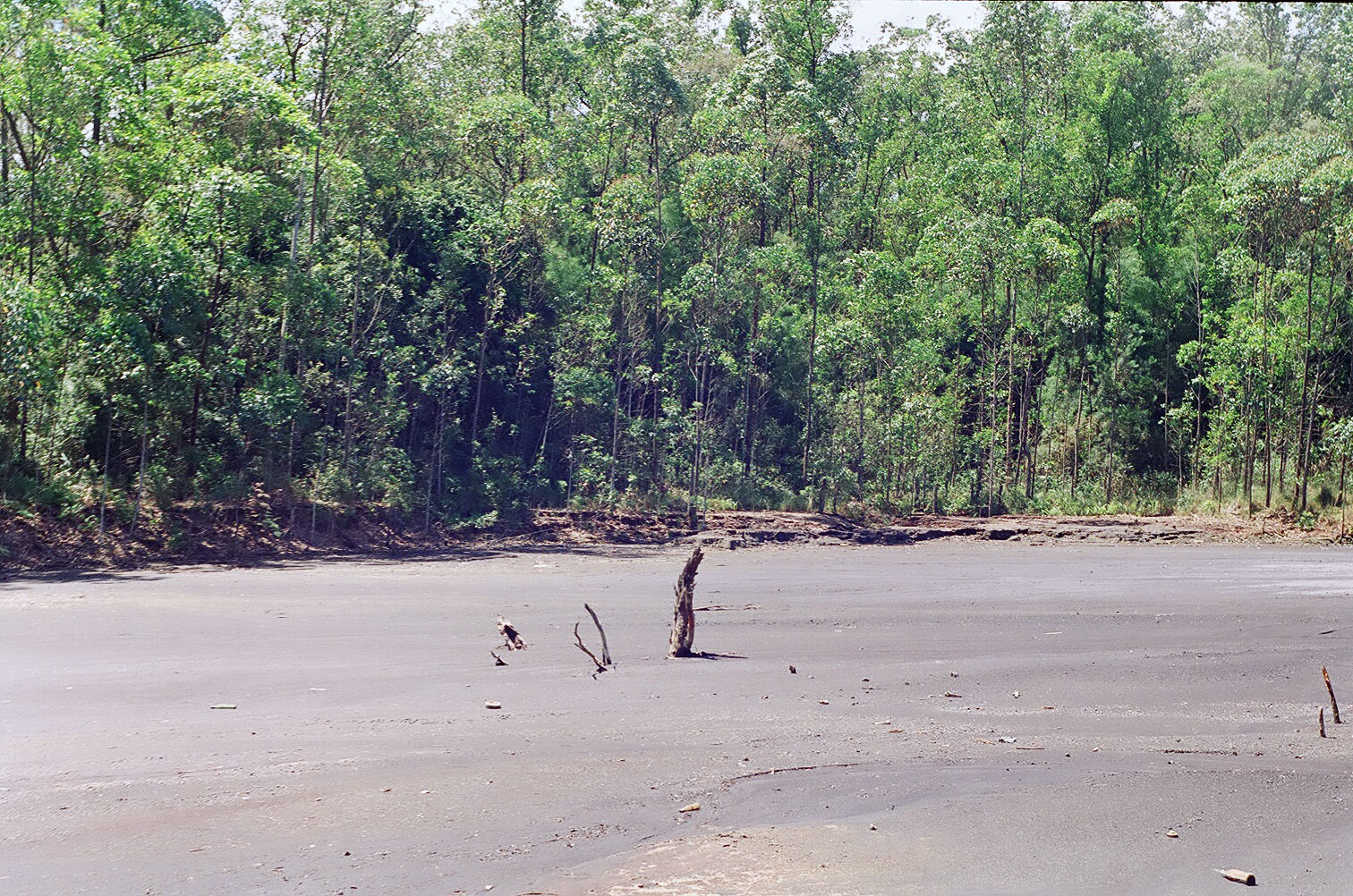 Degradation caused by the mining of coal. Siderópolis, Brazil.